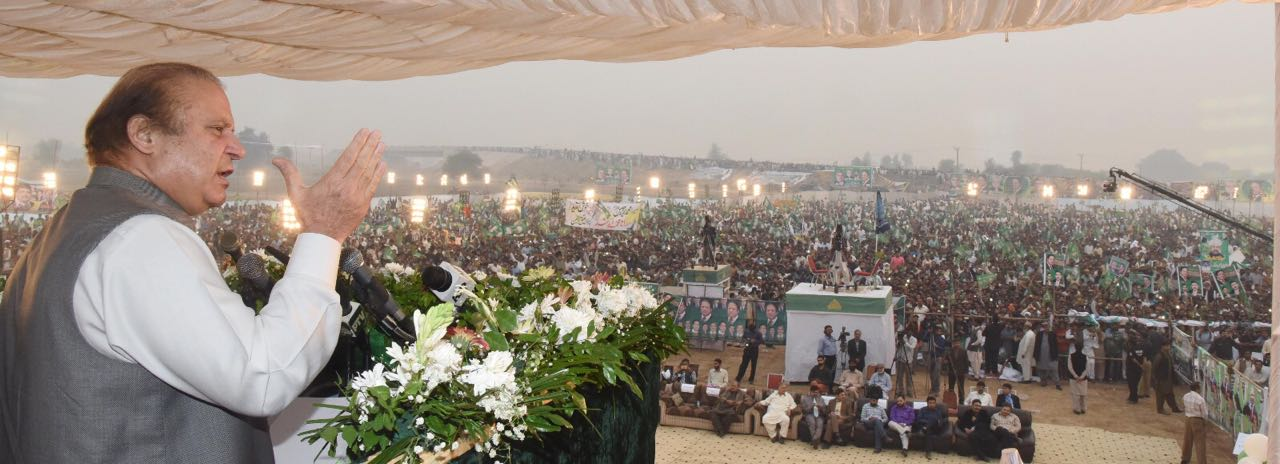 Prime Minister Nawaz Sharif addressing huge gathering in Sangla Hill, Pakistan